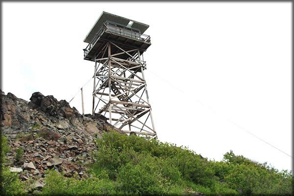 Fairview Peak lookout tower in the Umpqua National Forest of western Oregon